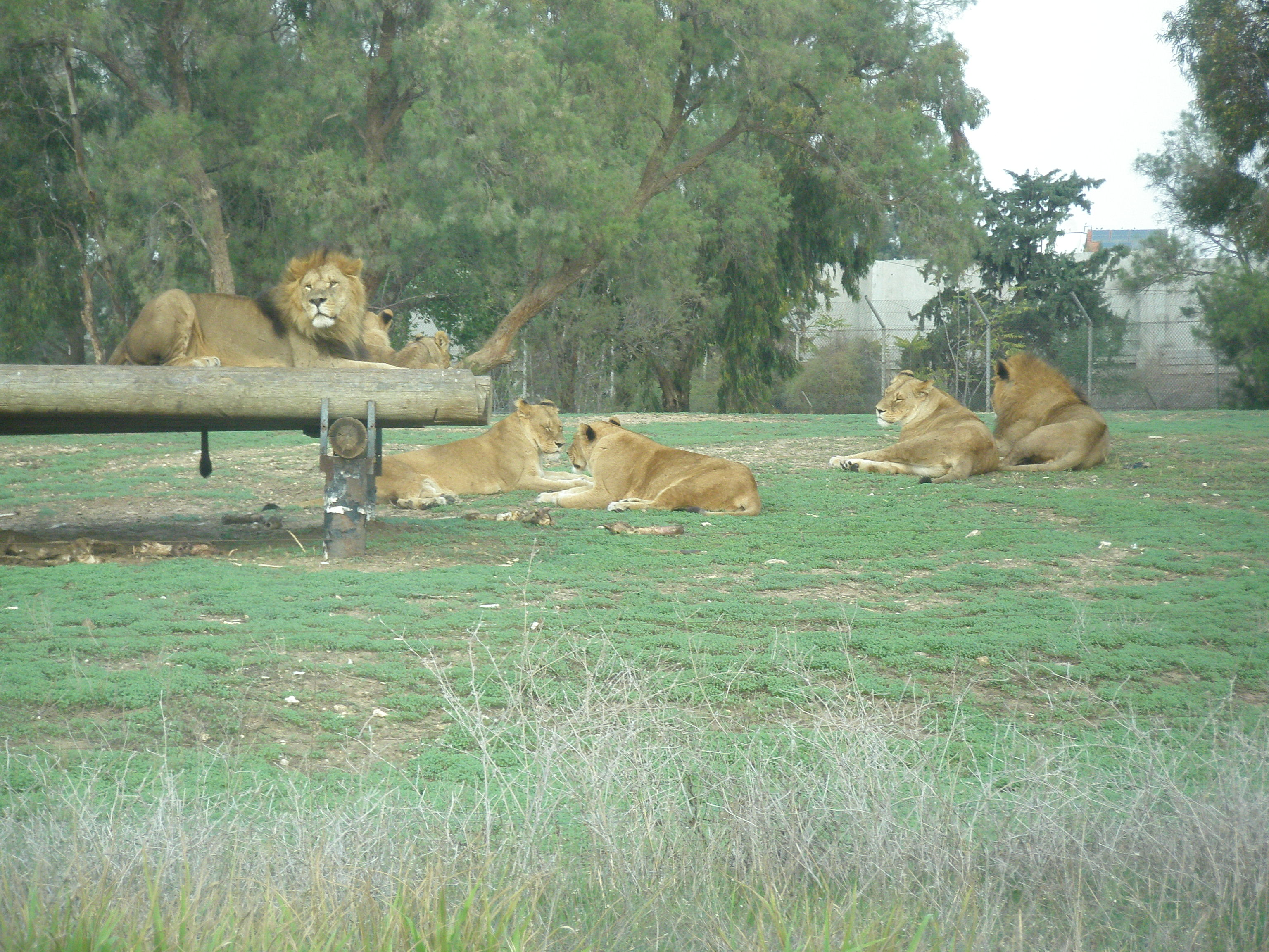 Lions at Zoological Center of Tel Aviv-Ramat Gan